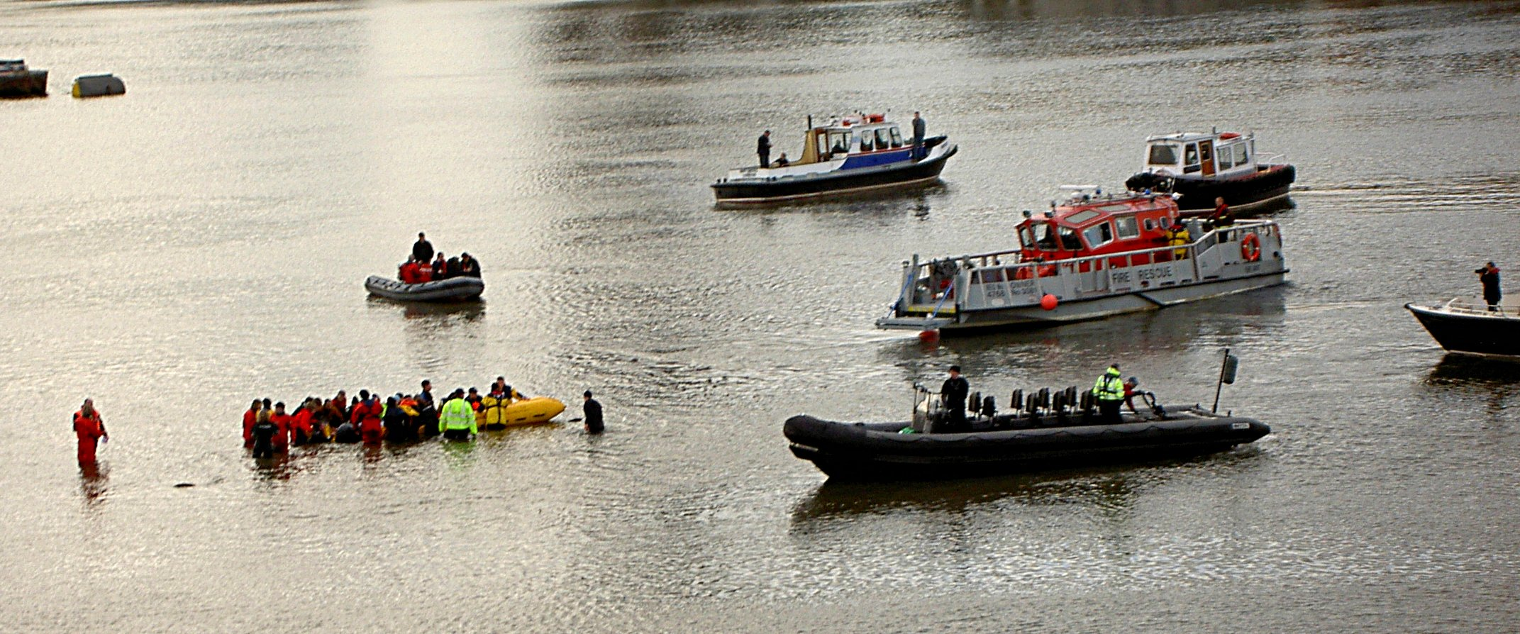 London whale sighting on Thames. Shermozle 14:08, 21 January 2006 (UTC)